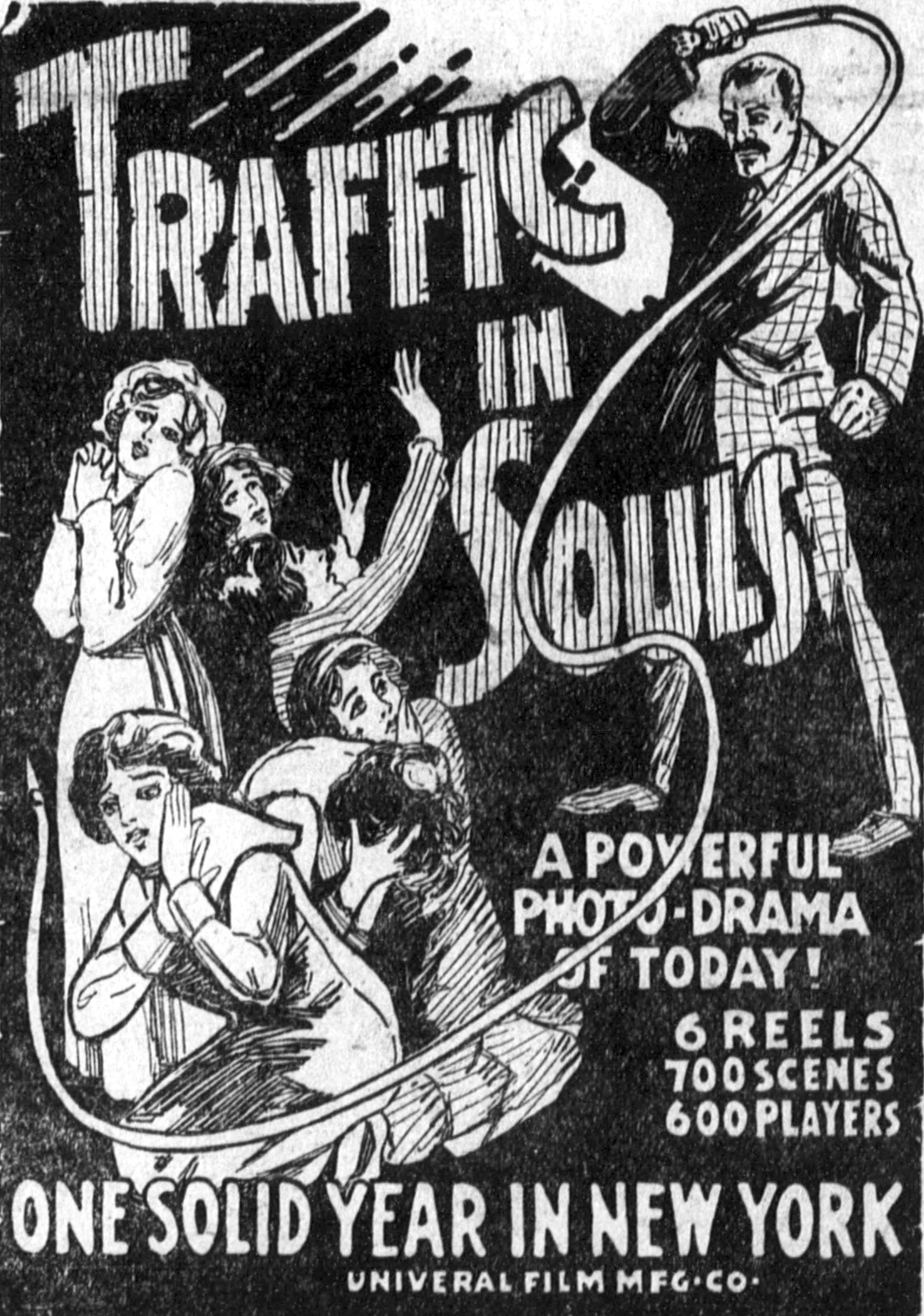 A 1917 advertisement from a newspaper for the 1913 film Traffic in Souls.